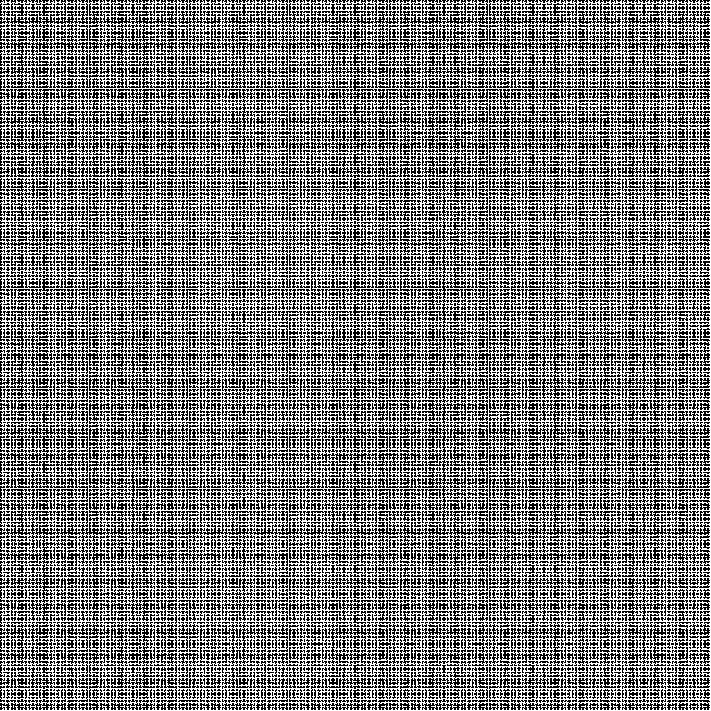 Hilbert Curve L8